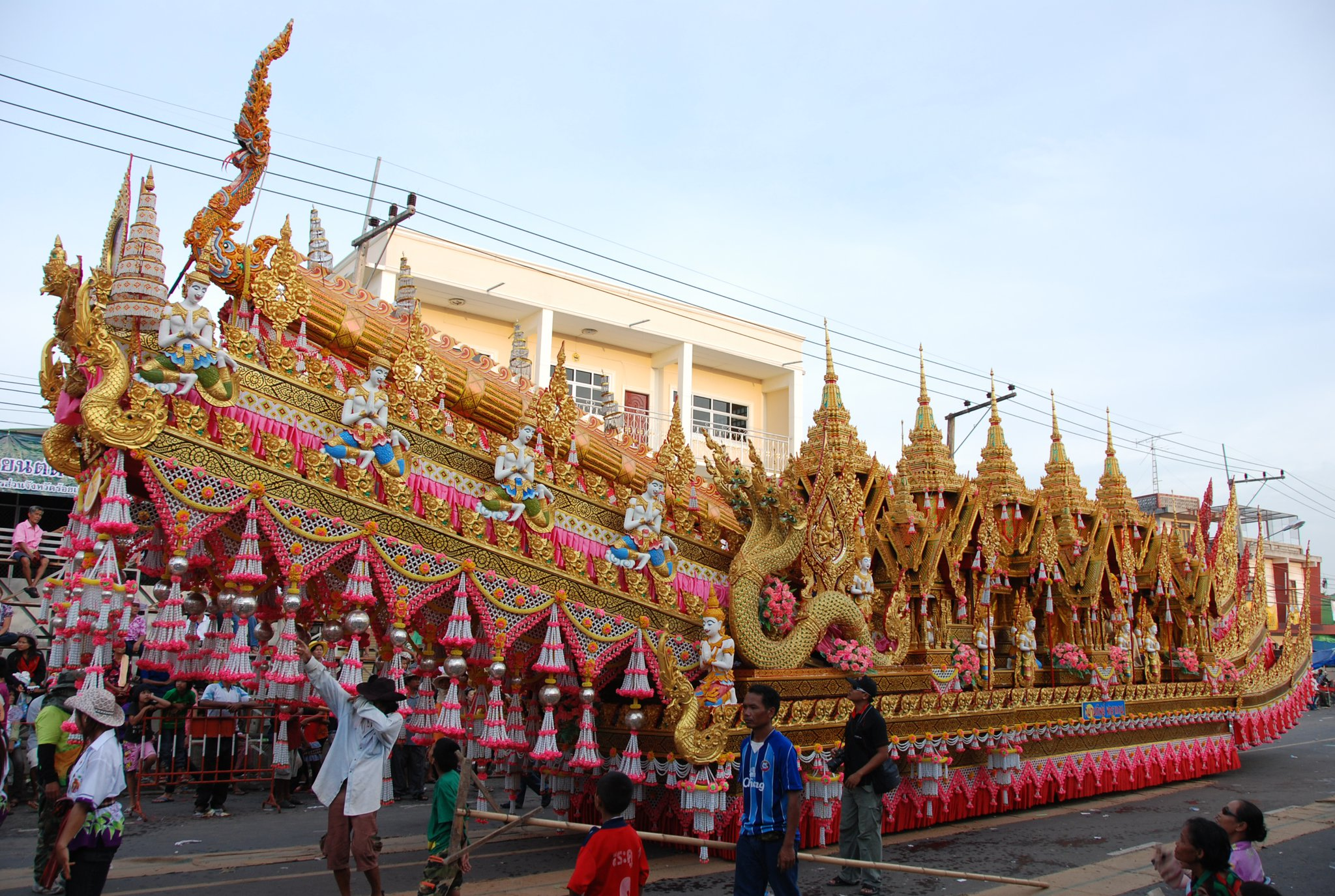 Bungfai Festival Photo in Suwannaphume , Roi ET